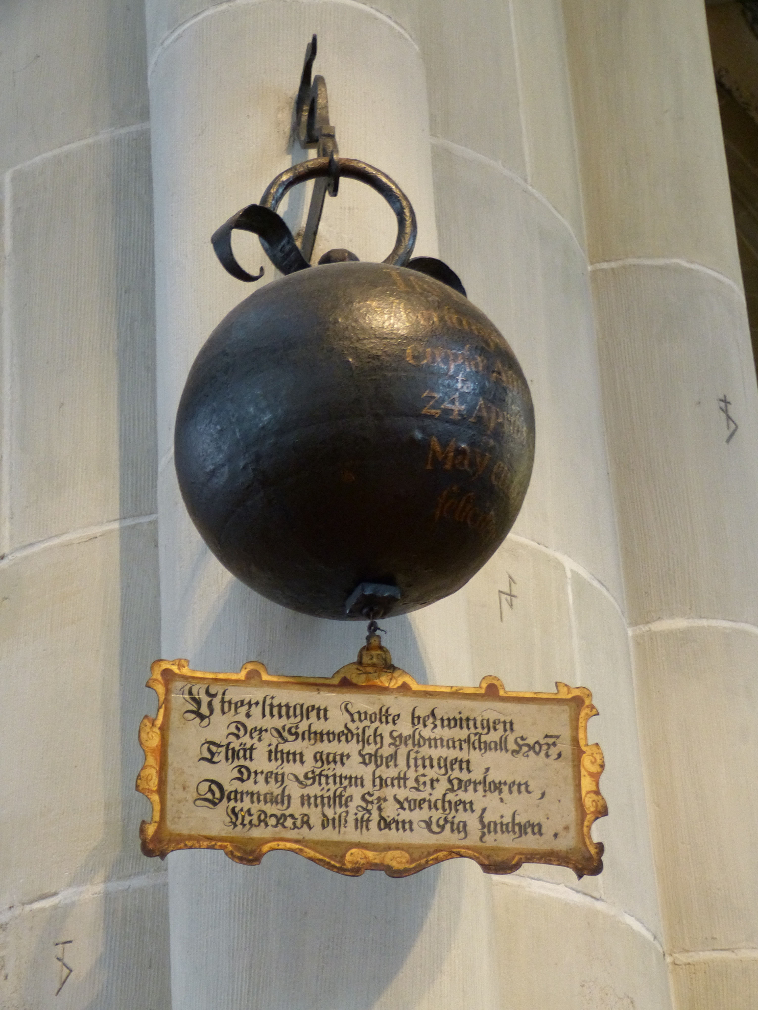 Überlingen ( Baden-Württemberg ).Saint Nicholas minster - Cannonball commemorating the siege of Überlingen ( 1634 ) by Swedish general Horn during the Thirty Years War.